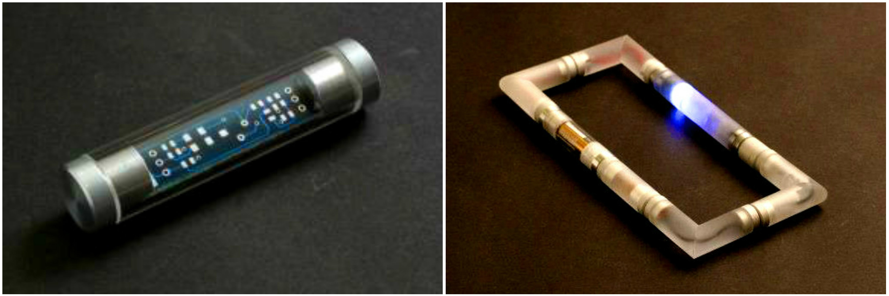 Silver Edition